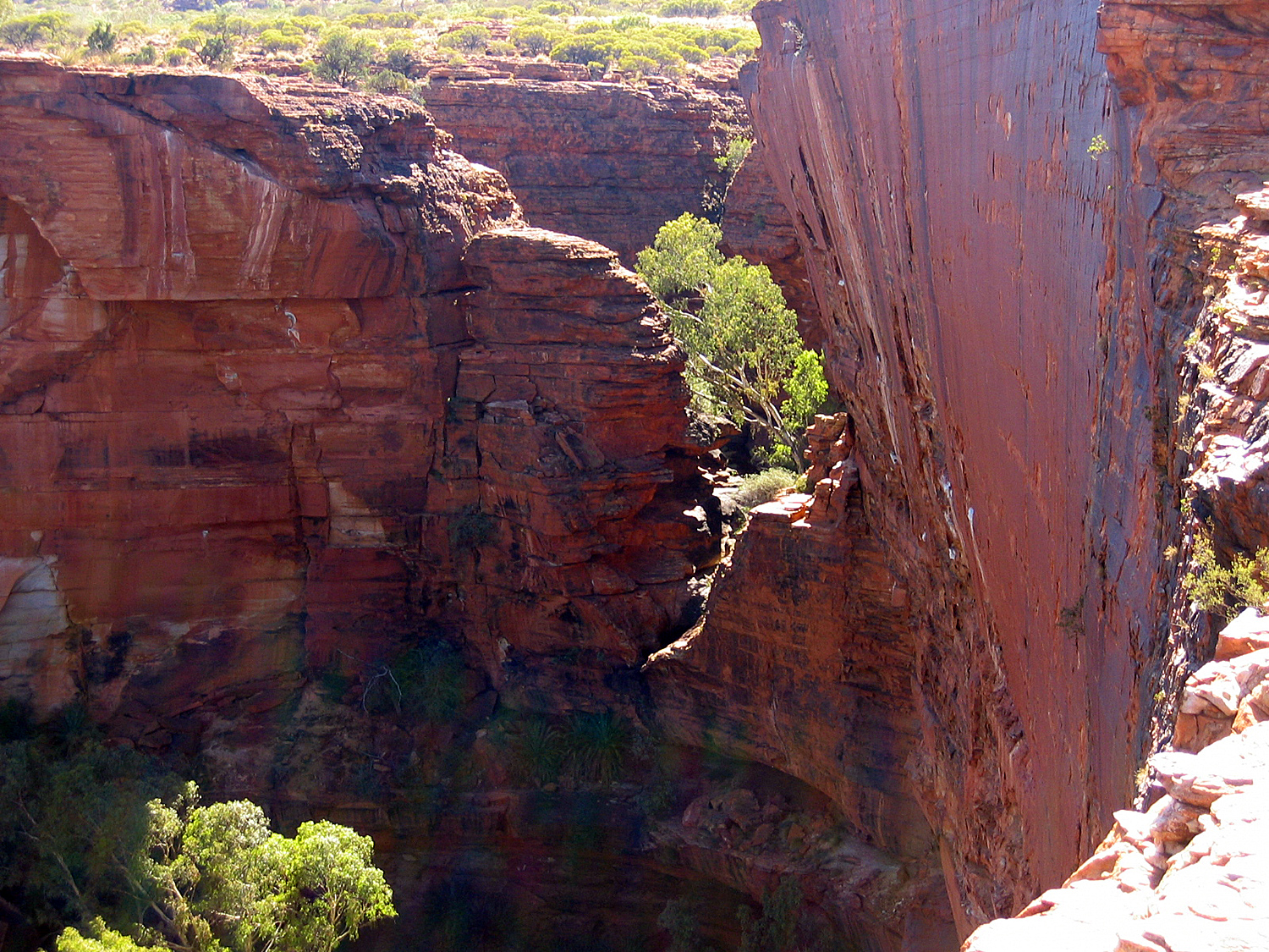 Kings Canyon Gorge, Watarrka National Park, Northern Territory, Australia